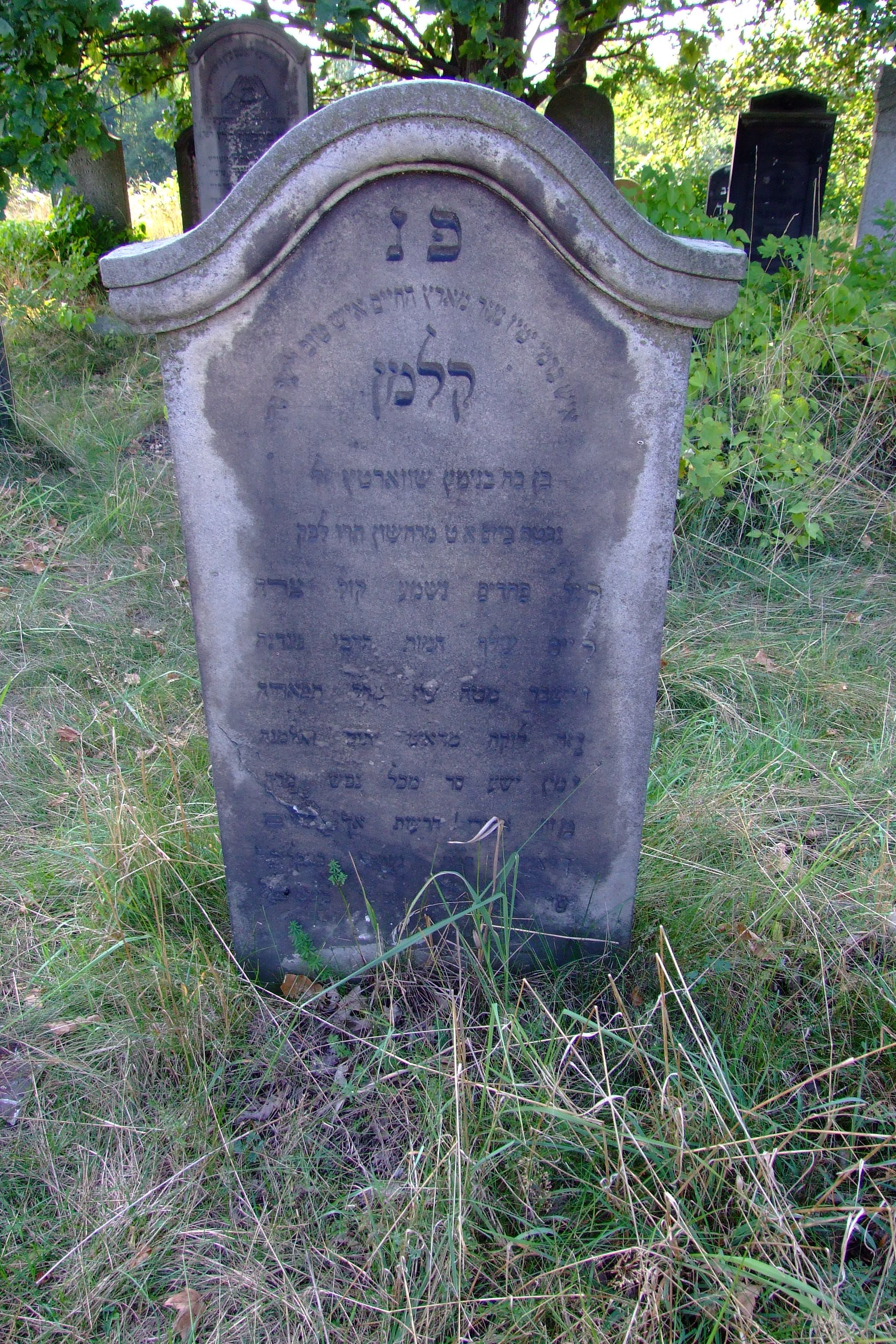 Jewish cemetery in Pyskowice/Poland